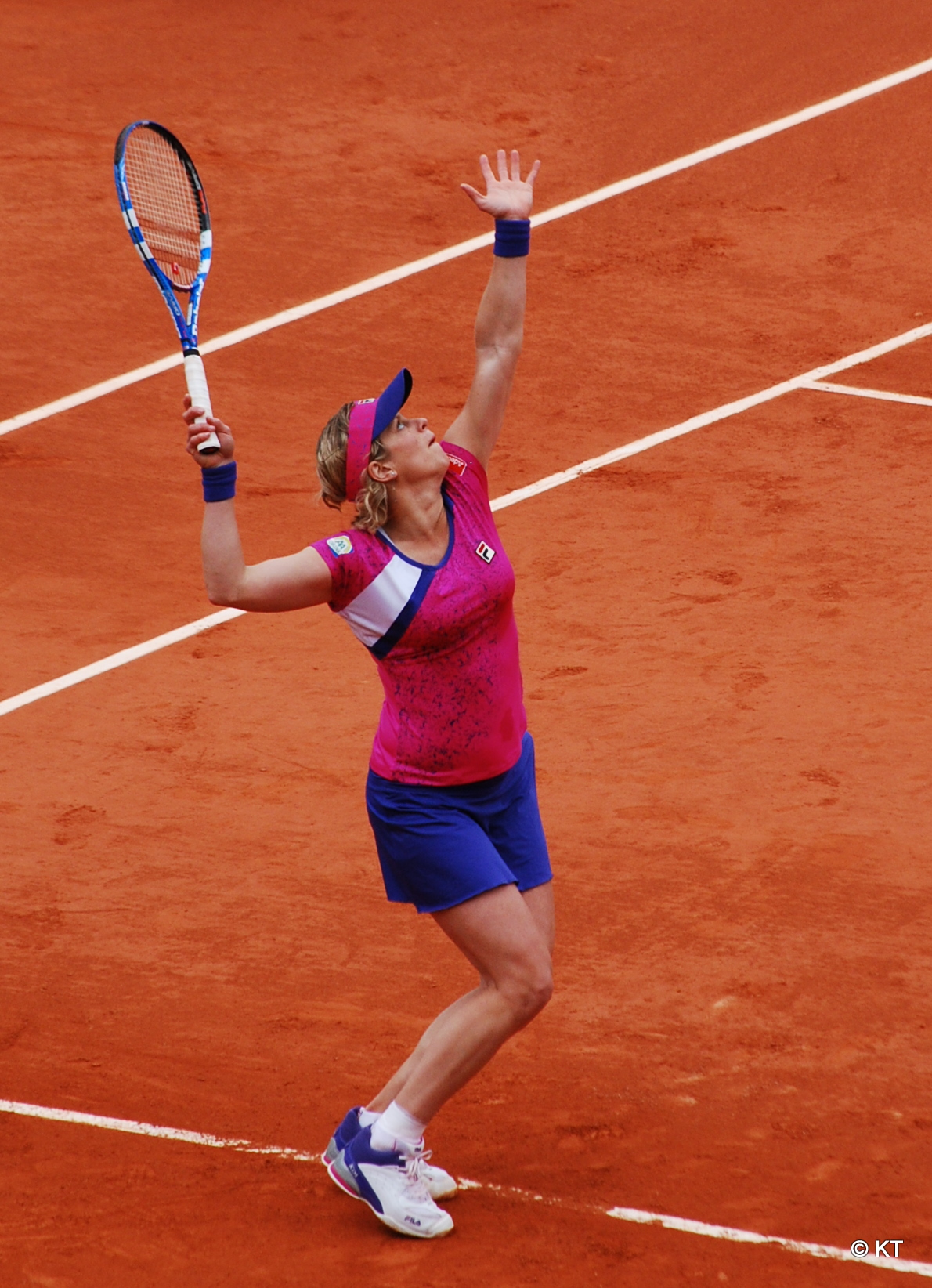 Clijsters serving against Rus in the 2nd round of the 2011 French Open